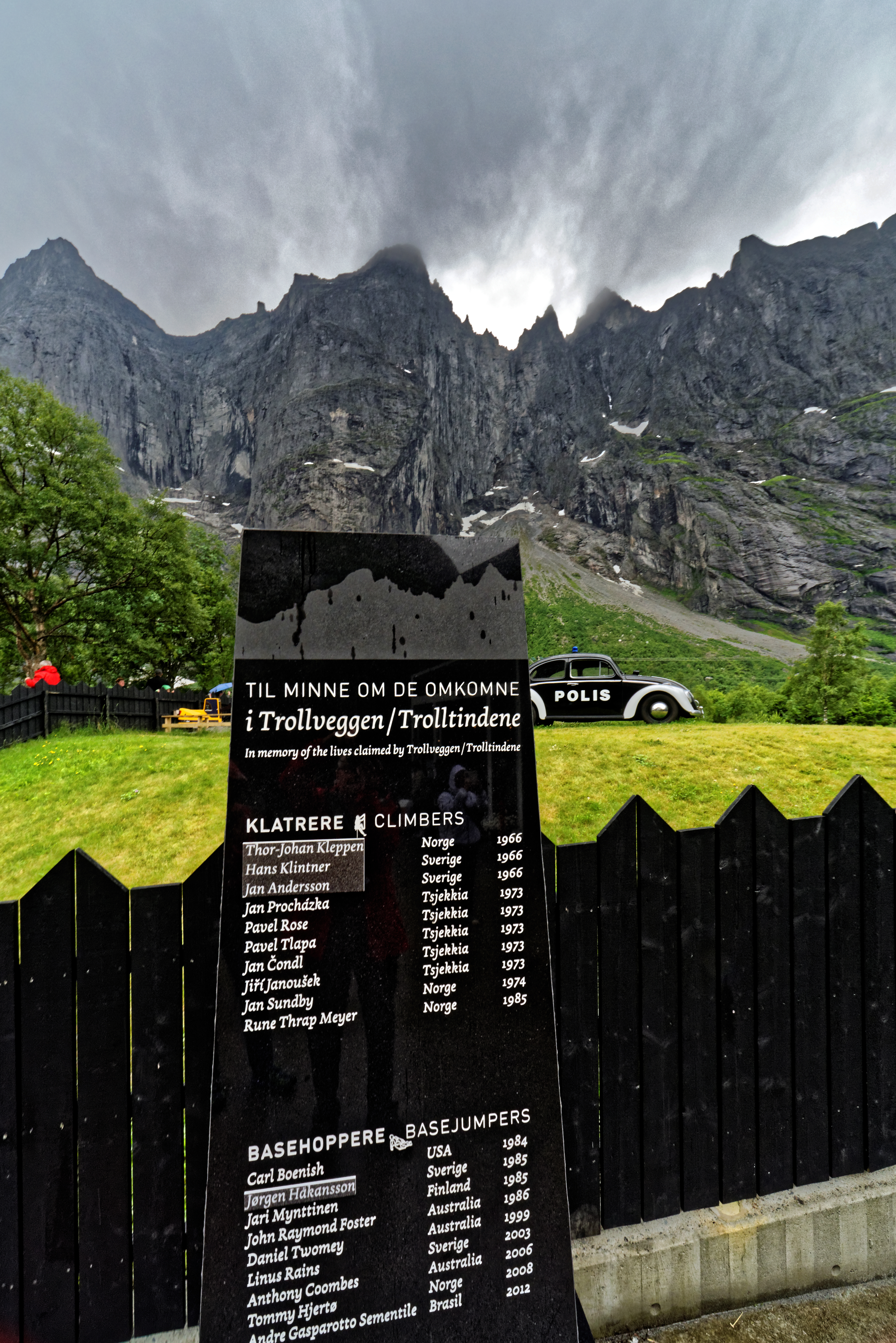 Memorial for the dead before the troll wall.